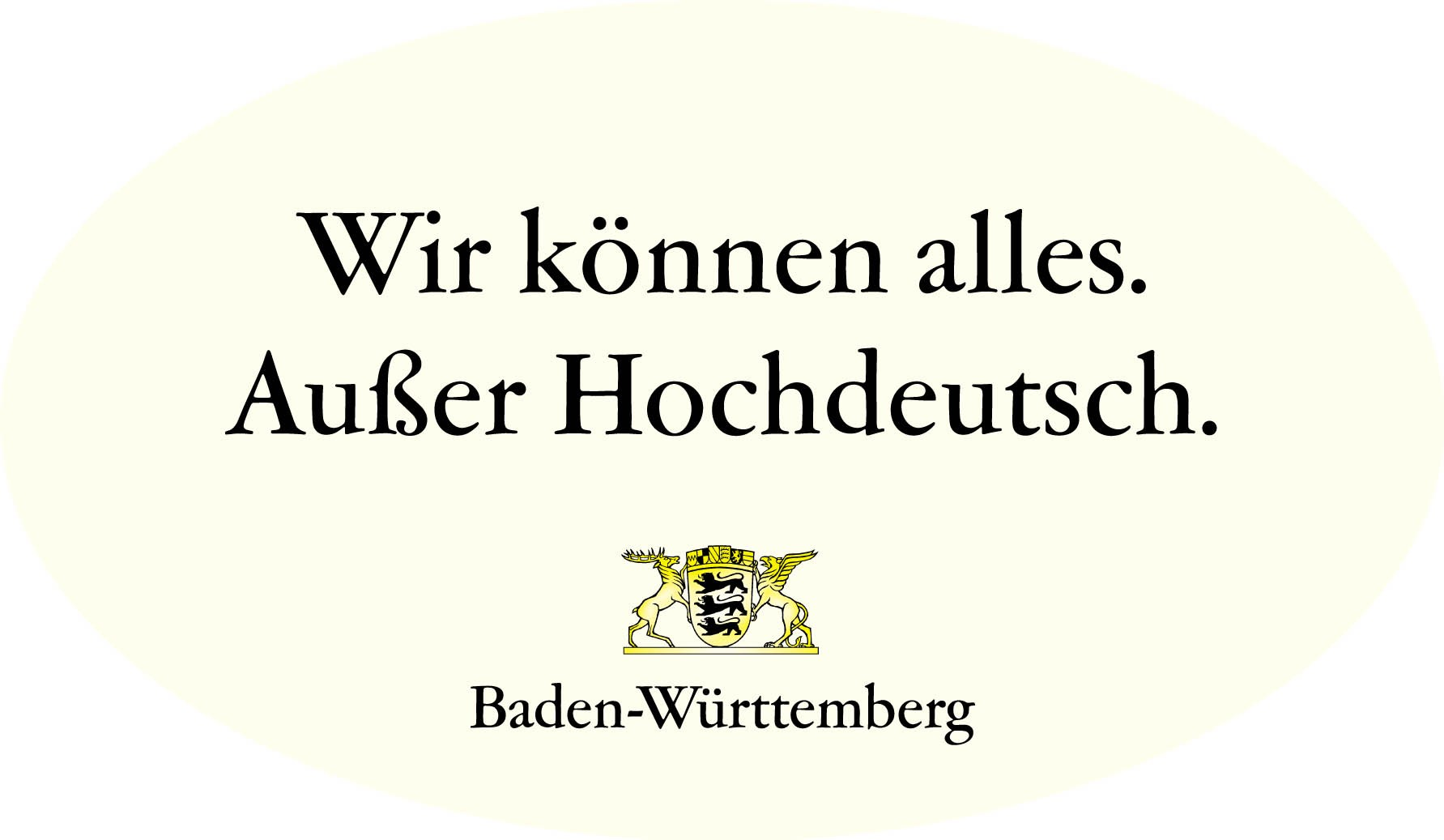 We can do everything. Except speak standard German. The advertising campaign slogan of the state of Baden-Württemberg.